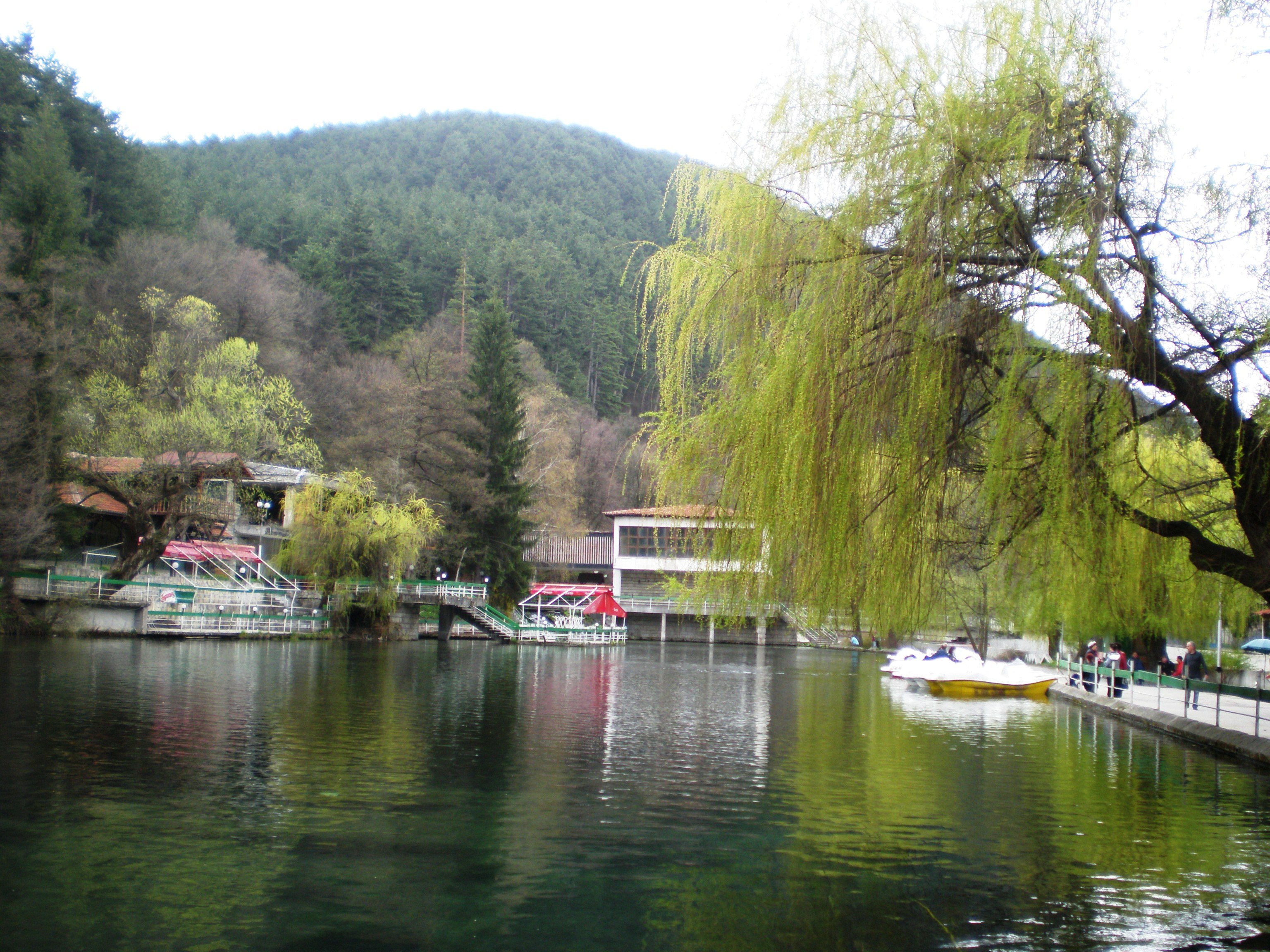 Kleptuza - Velingrad, Bulgaria